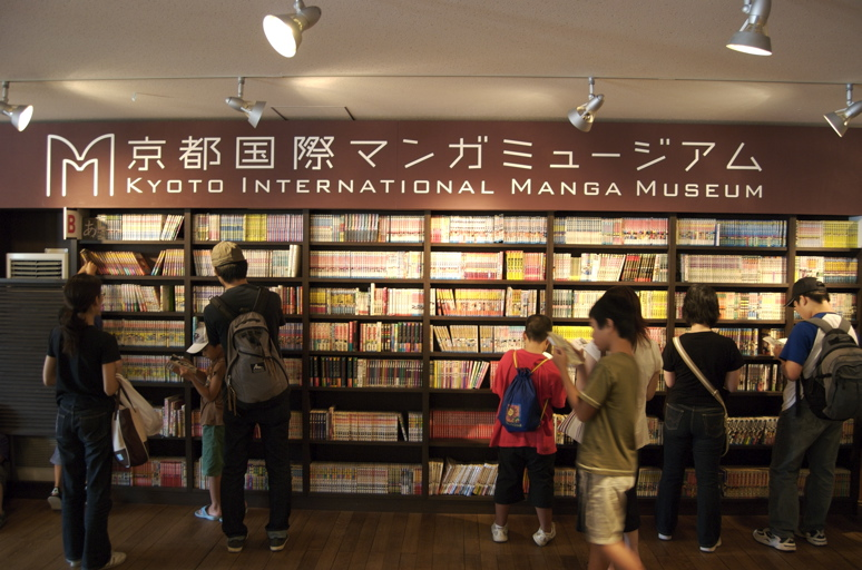 Original description: Like manga? This is the place to go. They have over 200,000 books, and you can read them all for free.